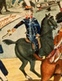 Trooper Anzelark from a contemporary depiction of the 1804 Battle of Vinegar Hill